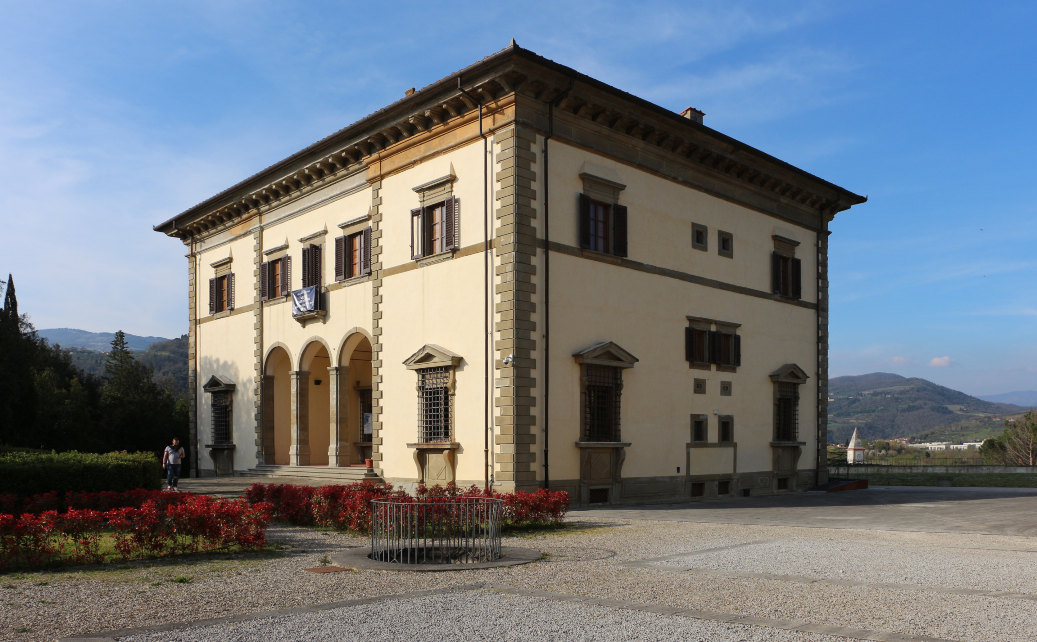 Villa di Poggio Reale (Rufina)